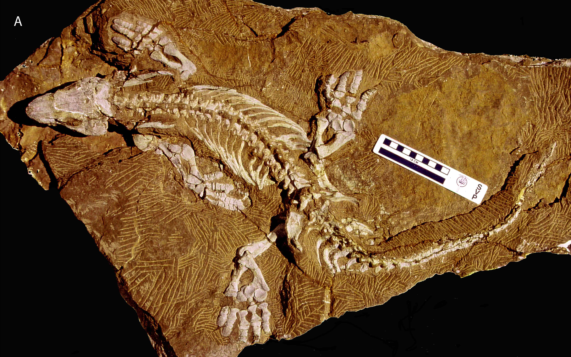 Holotype specimen of Orobates pabsti (MNG 10181) housed at the Museum der Natur Gotha, Stiftung Schloß Friedenstein, Germany.